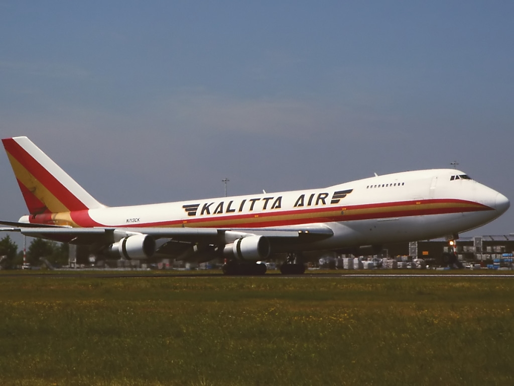 Kalitta Air Boeing 747-2B4B(SF) (N713CK) at Schiphol airport (the Netherlands)